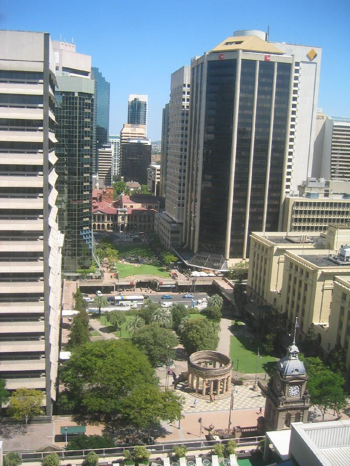 Brisbane, Queensland, Australia: View of ANZAC Square and Brisbane GPO from Central Station. Phoyo:IDB